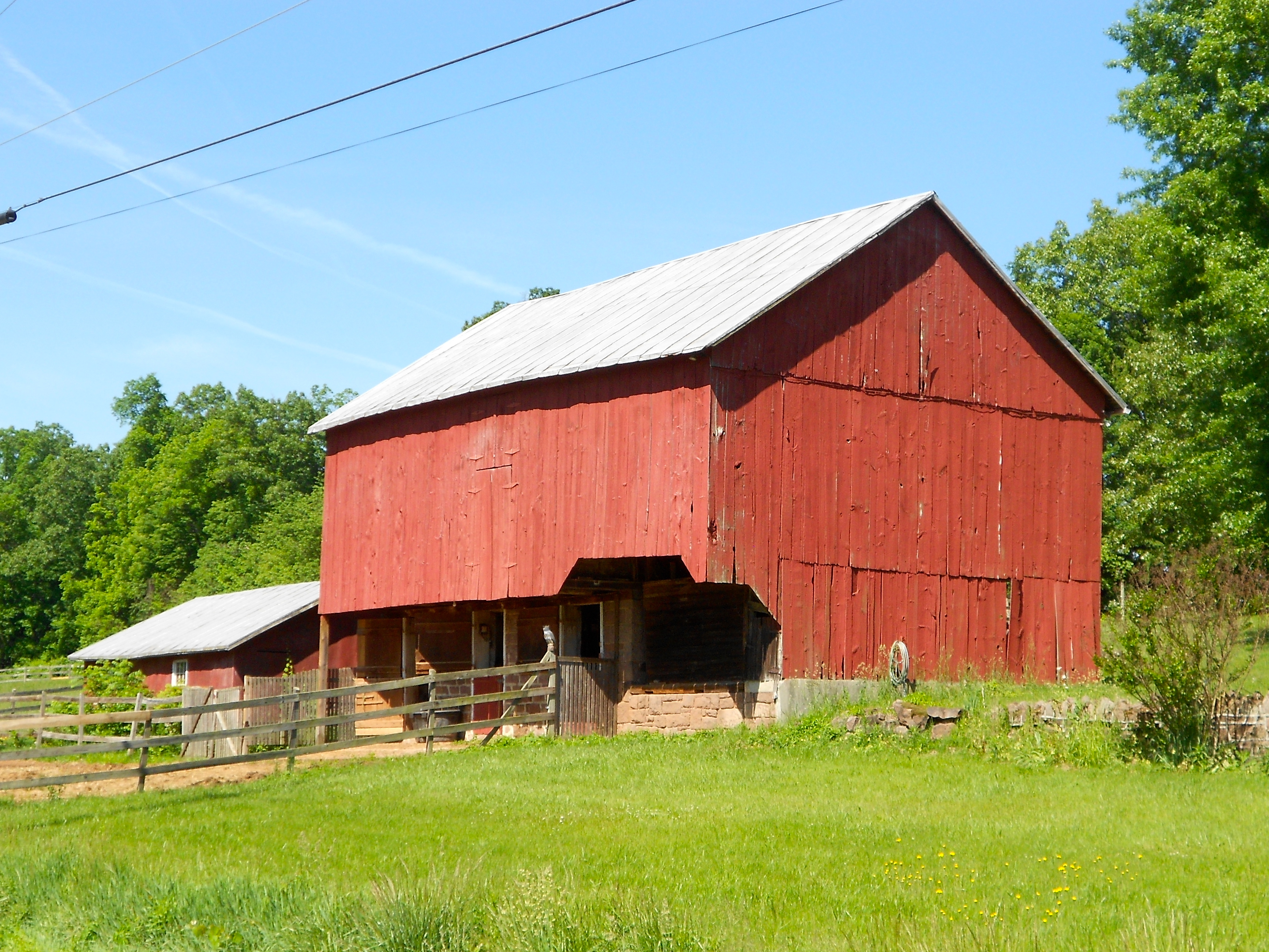 Barn on Conewago Road in Dover Township, York County, Pennsylvania